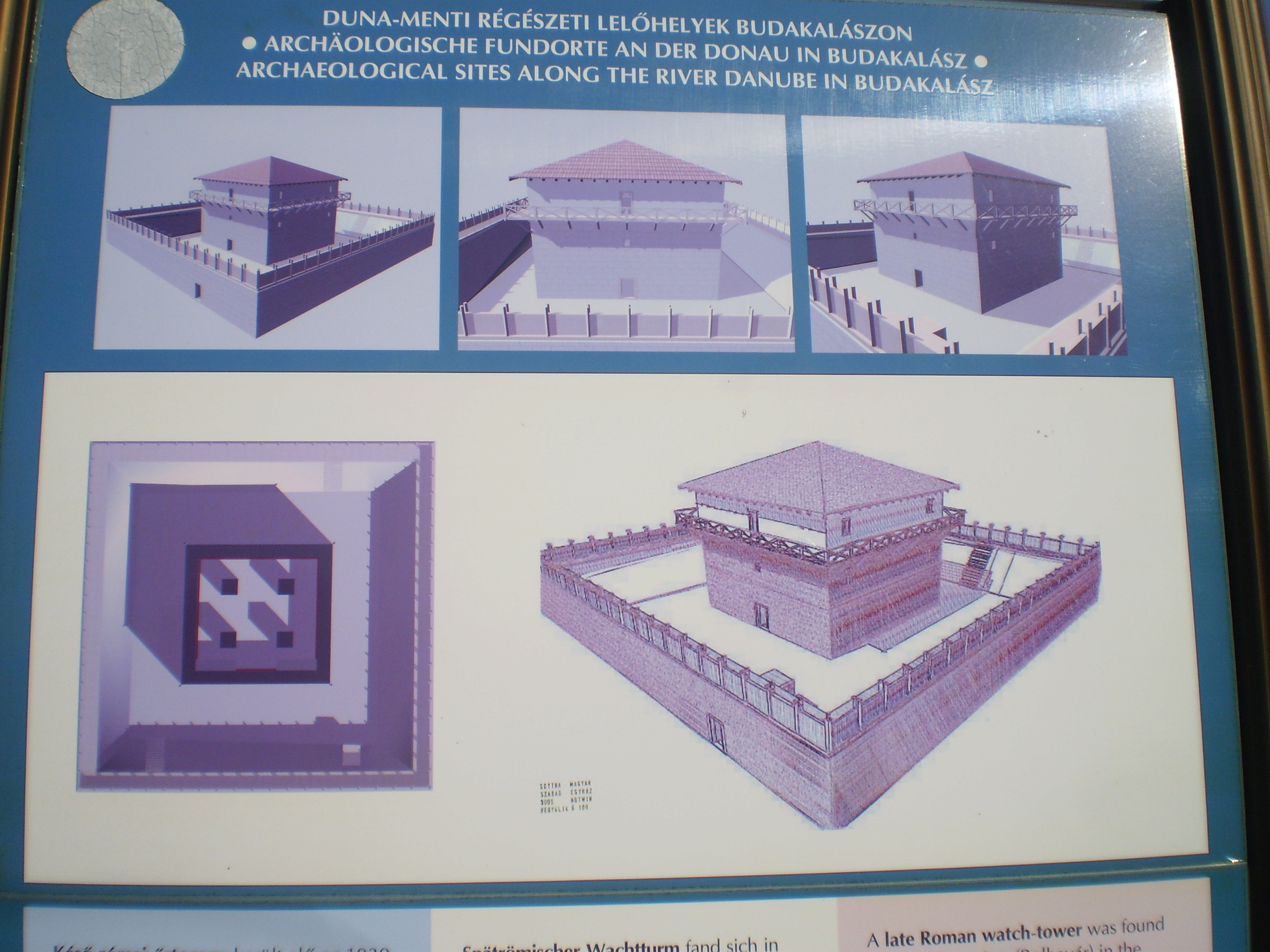 Budakalász reconsturction of a roman burgus